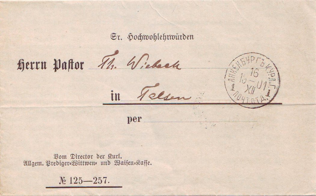 Letter from the (Lutheran) Courlandic General Fund for Widows and Orphans of Priests in Annenburg (now Emburga in Latvia) to the vicar of Talsen (now Talsi), 16 December 1901. Official church letters were free of postage dues in Czarist Russia.